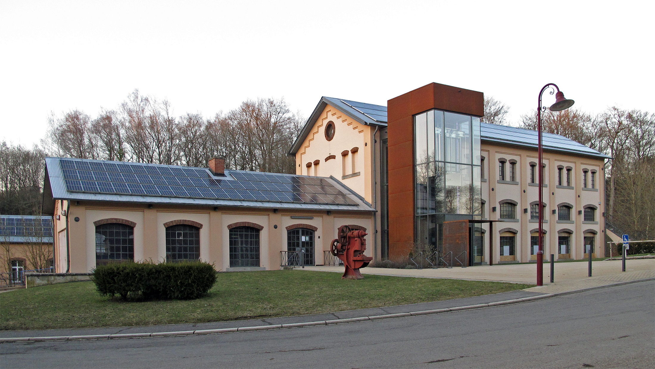 Cultural center "Al Schmelz" in Steinfort, Luxembourg